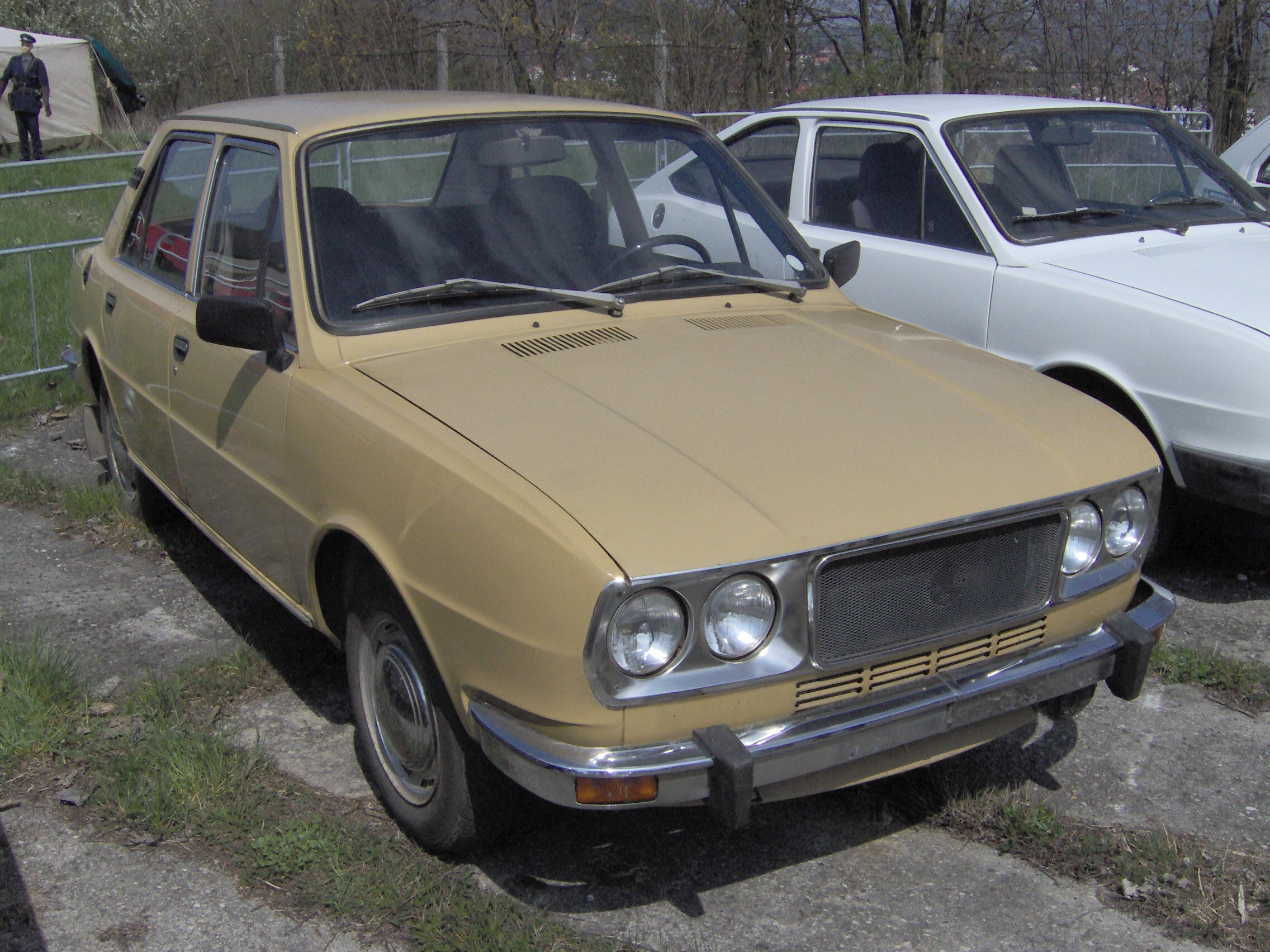 Škoda 120 GLS in Brno, Czech Republic